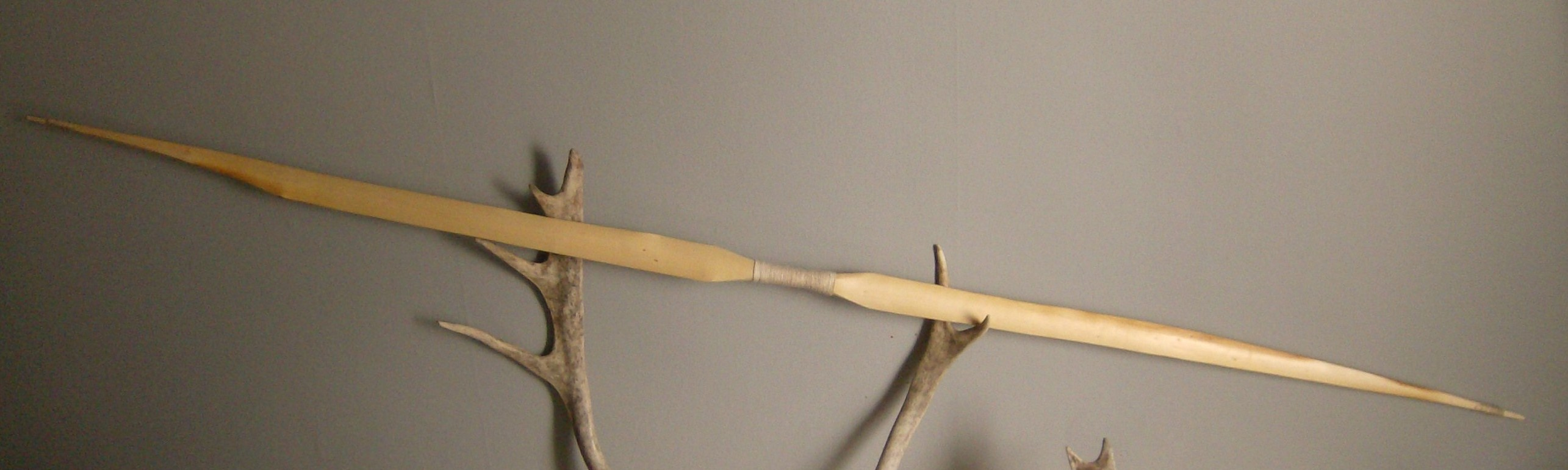 An example of a Holmegaard type bow.